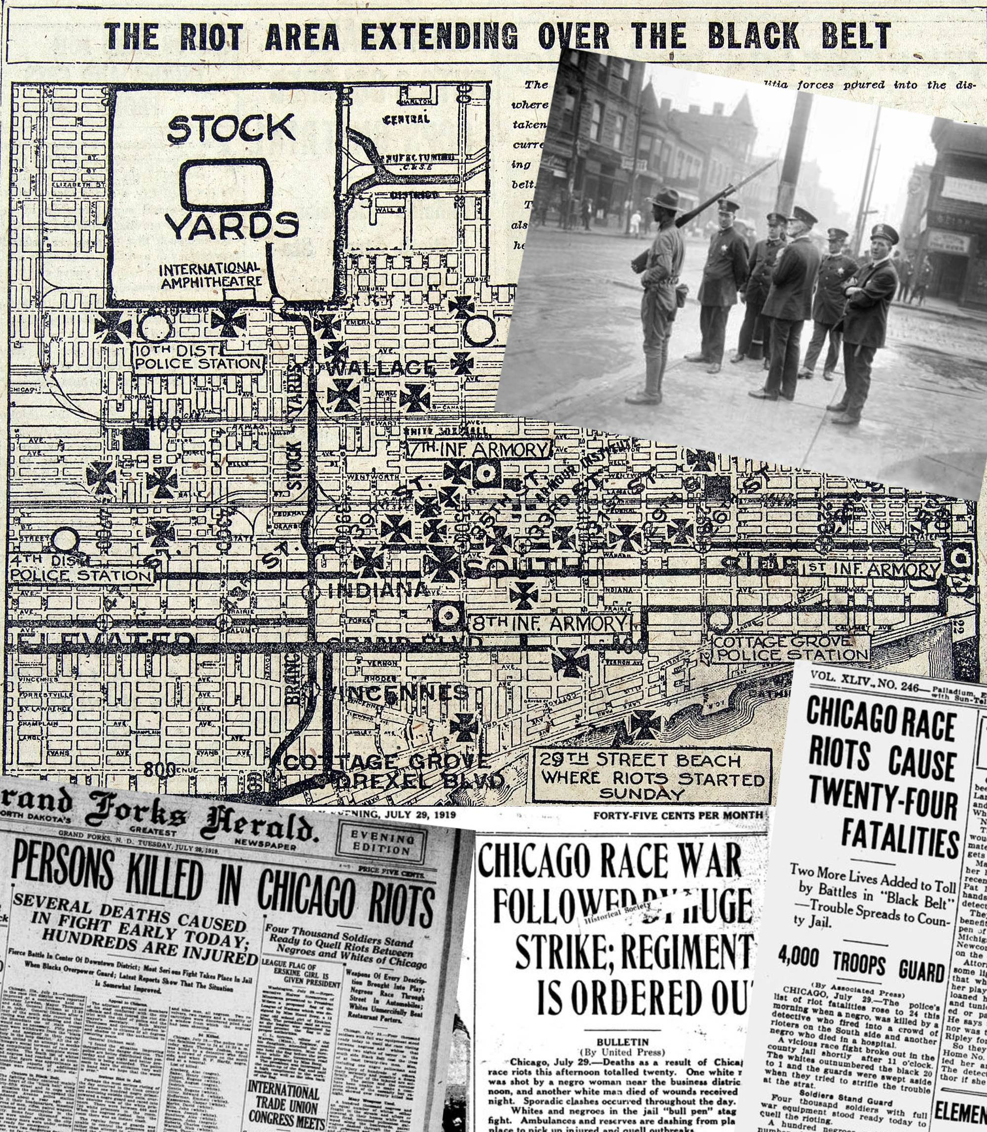 News coverage of the 1919 Chicago Race Riot